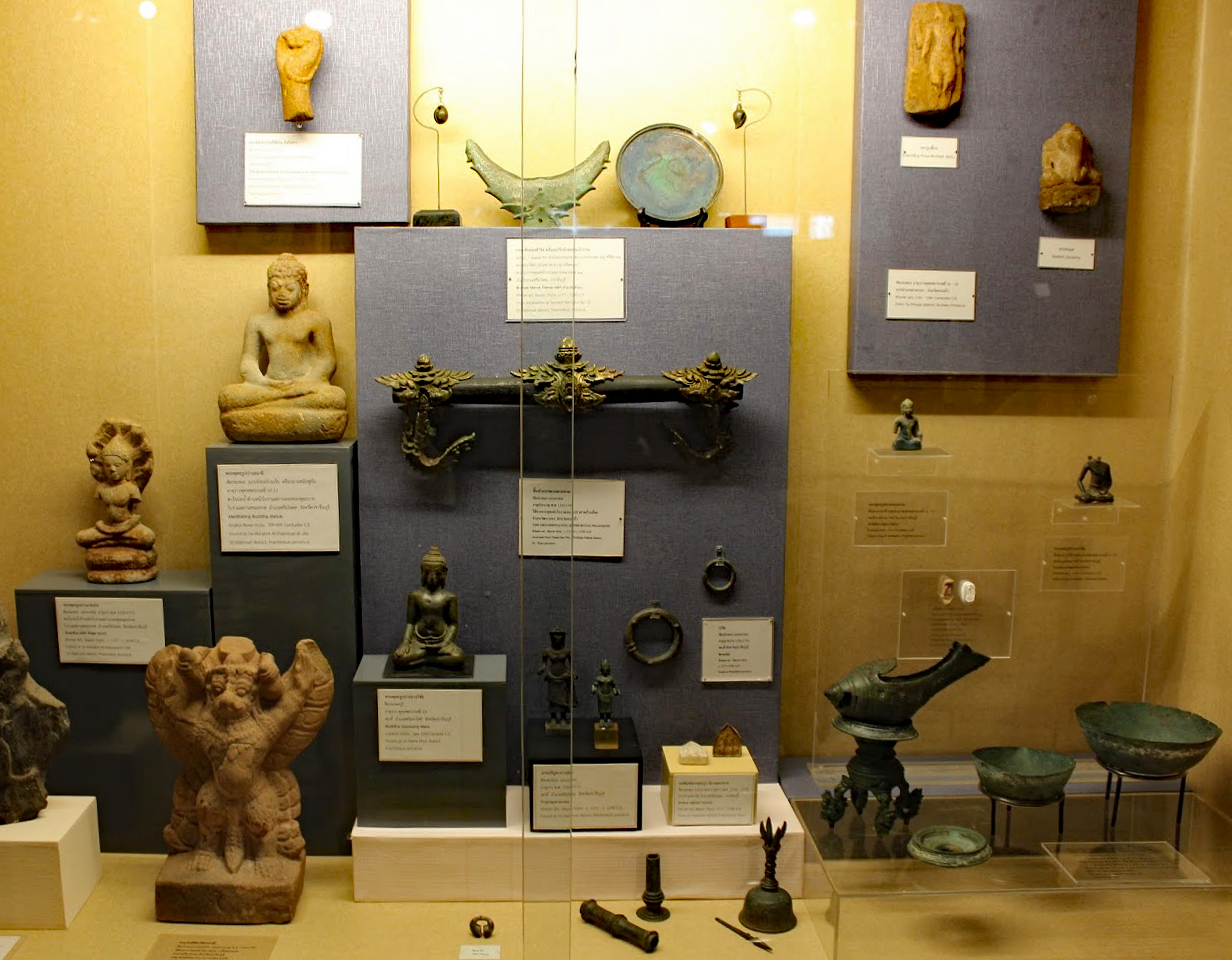 Museum display, archaeological